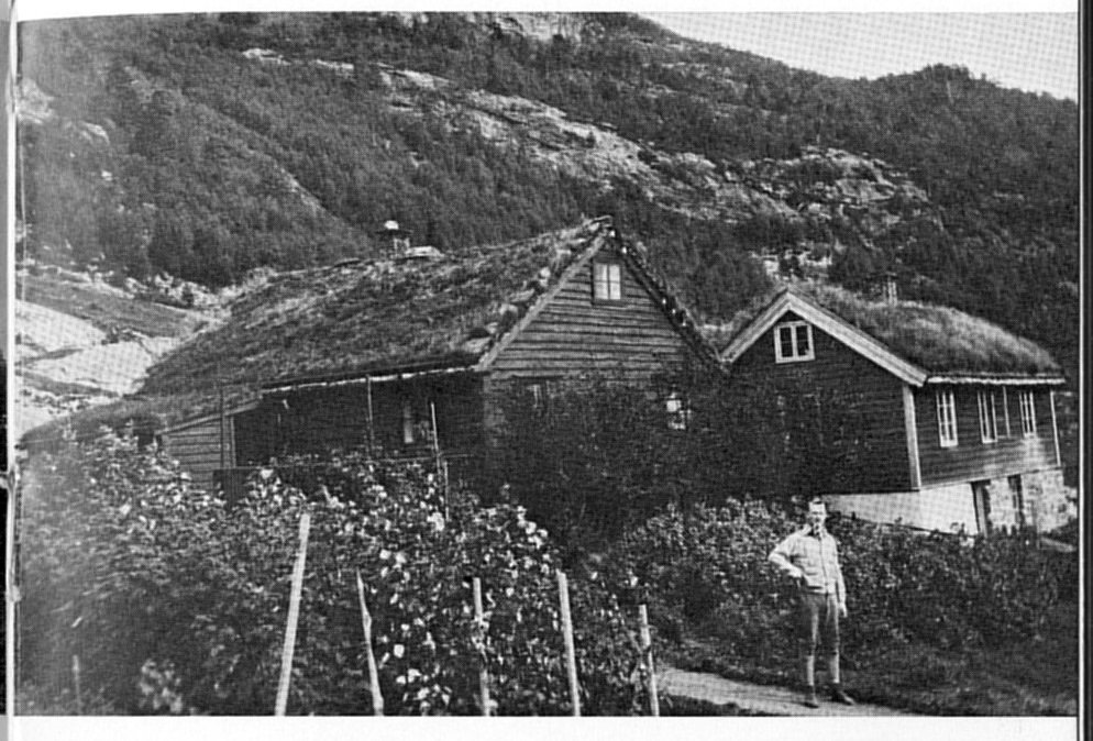 The old farmhouse Erik Grant Lea and Hilda moved into. On the picture it has been repaired. Gjølanger, Dale parish, Sogn og Fjordane county, Norway. Photographer unknown. 1925.